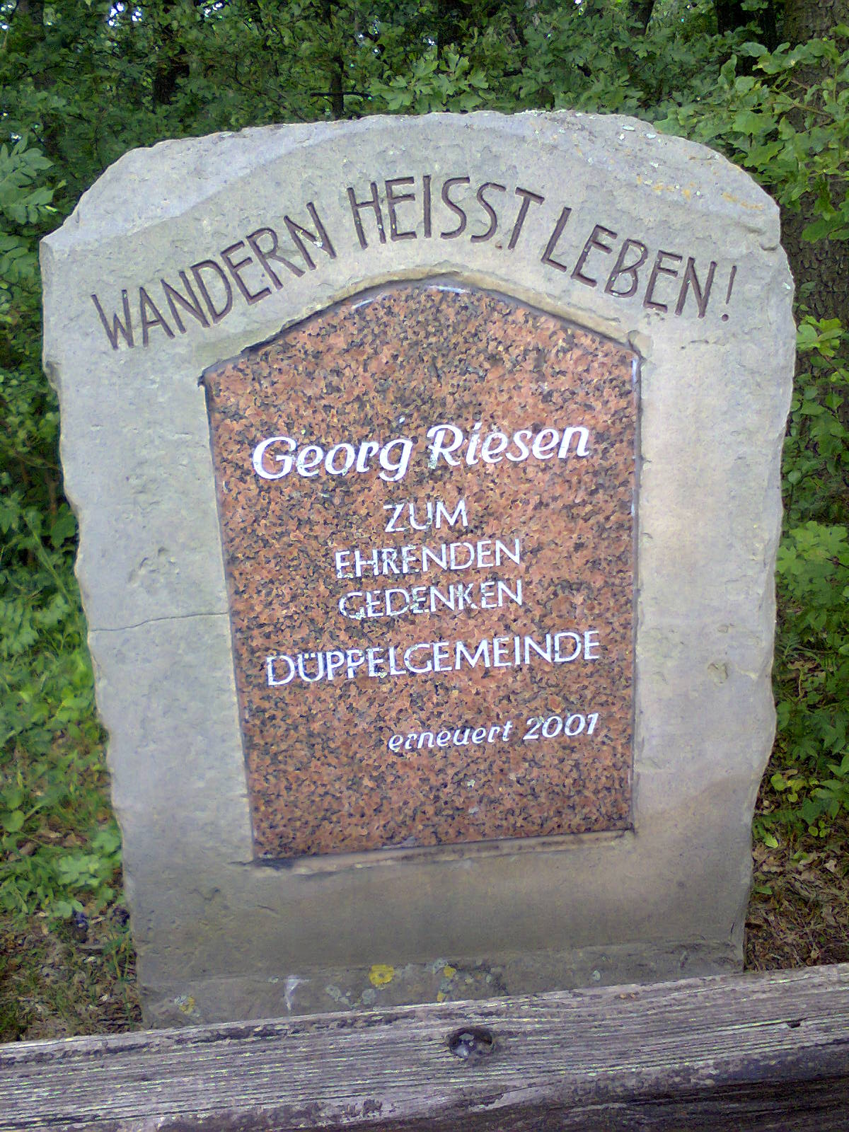 Memorial for Georg Riesen in Seebergen